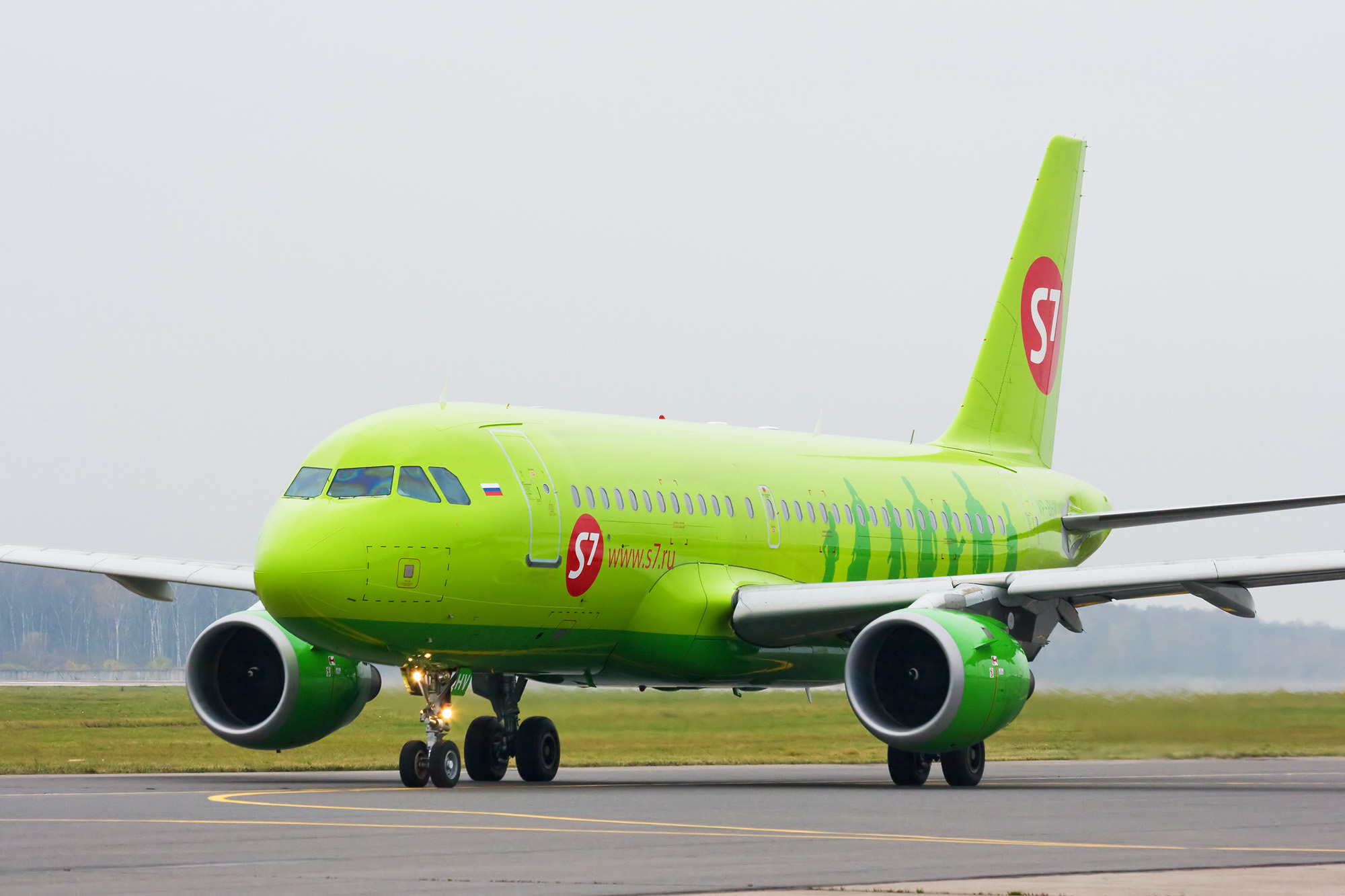 S7 Airbus A319